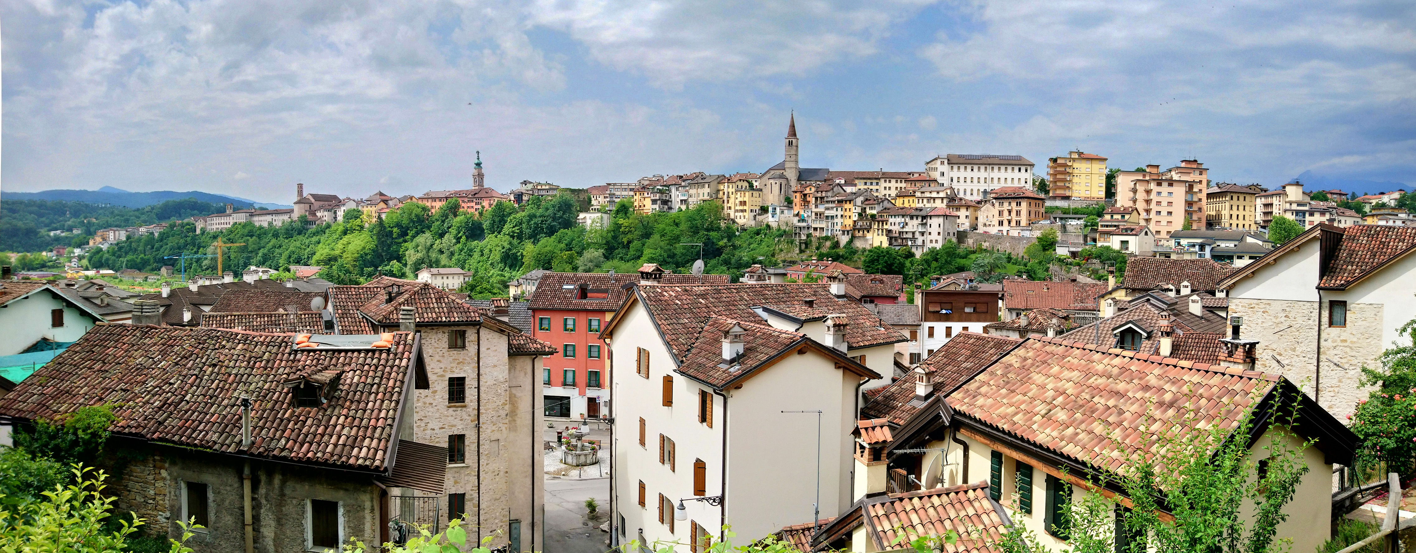 Belluno, Italy.